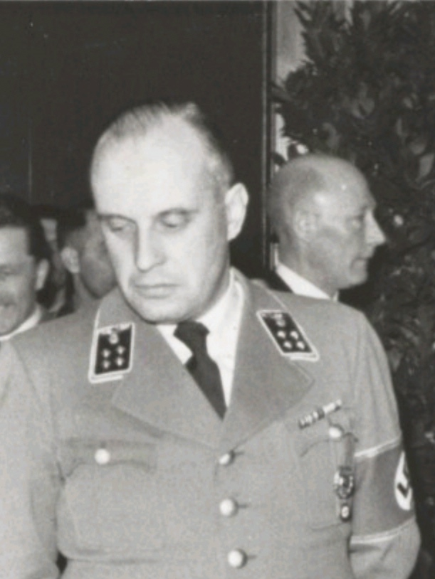 Dr. Hans Böhmcker during the opening of an exhibition of German books in the Rijksmuseum, Amsterdam, Febr. 1942